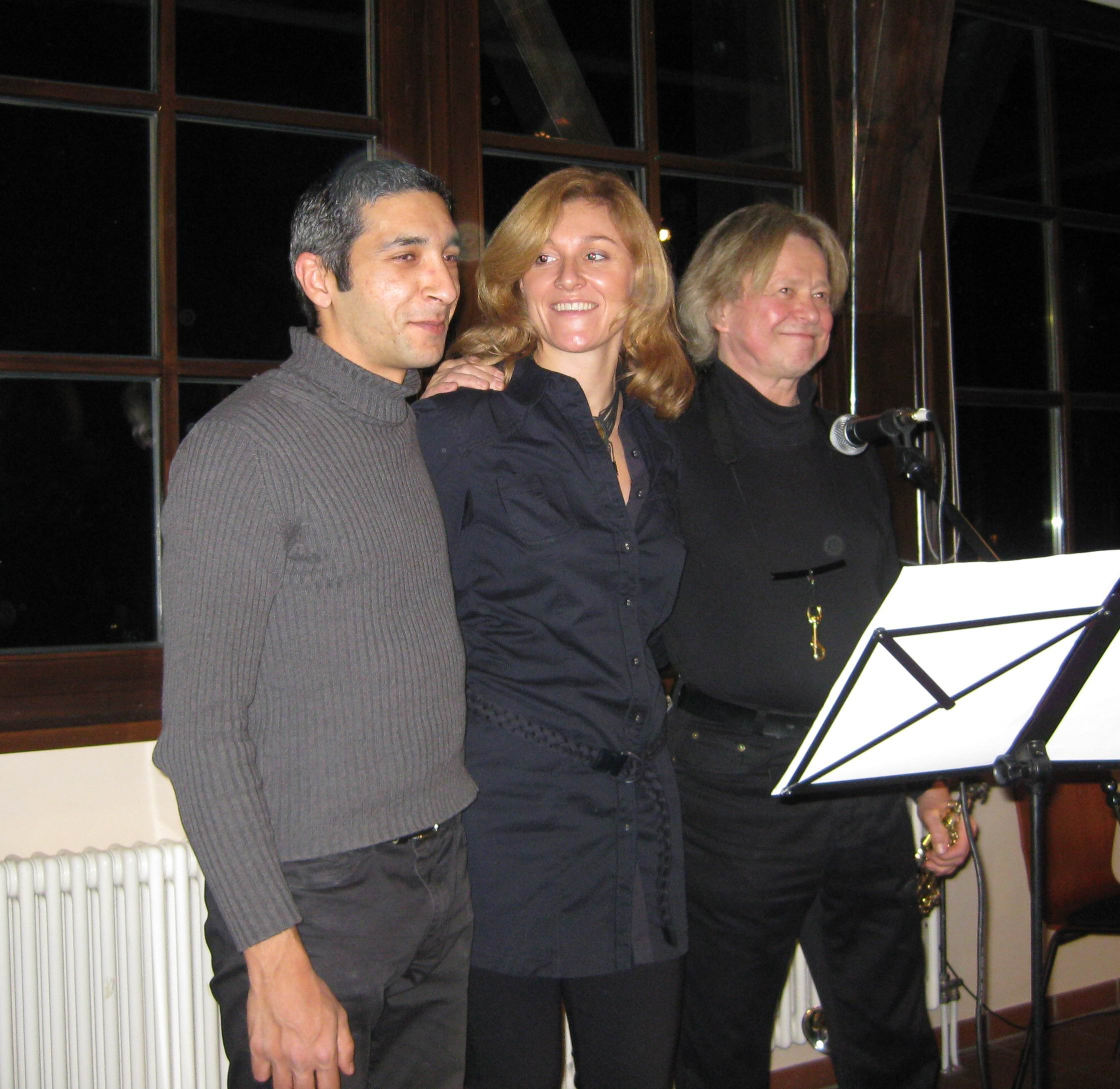 Konstantin Kostov, Agnieszka Hekiert and Leszek Zadlo in Nuremberg 2009-11-29